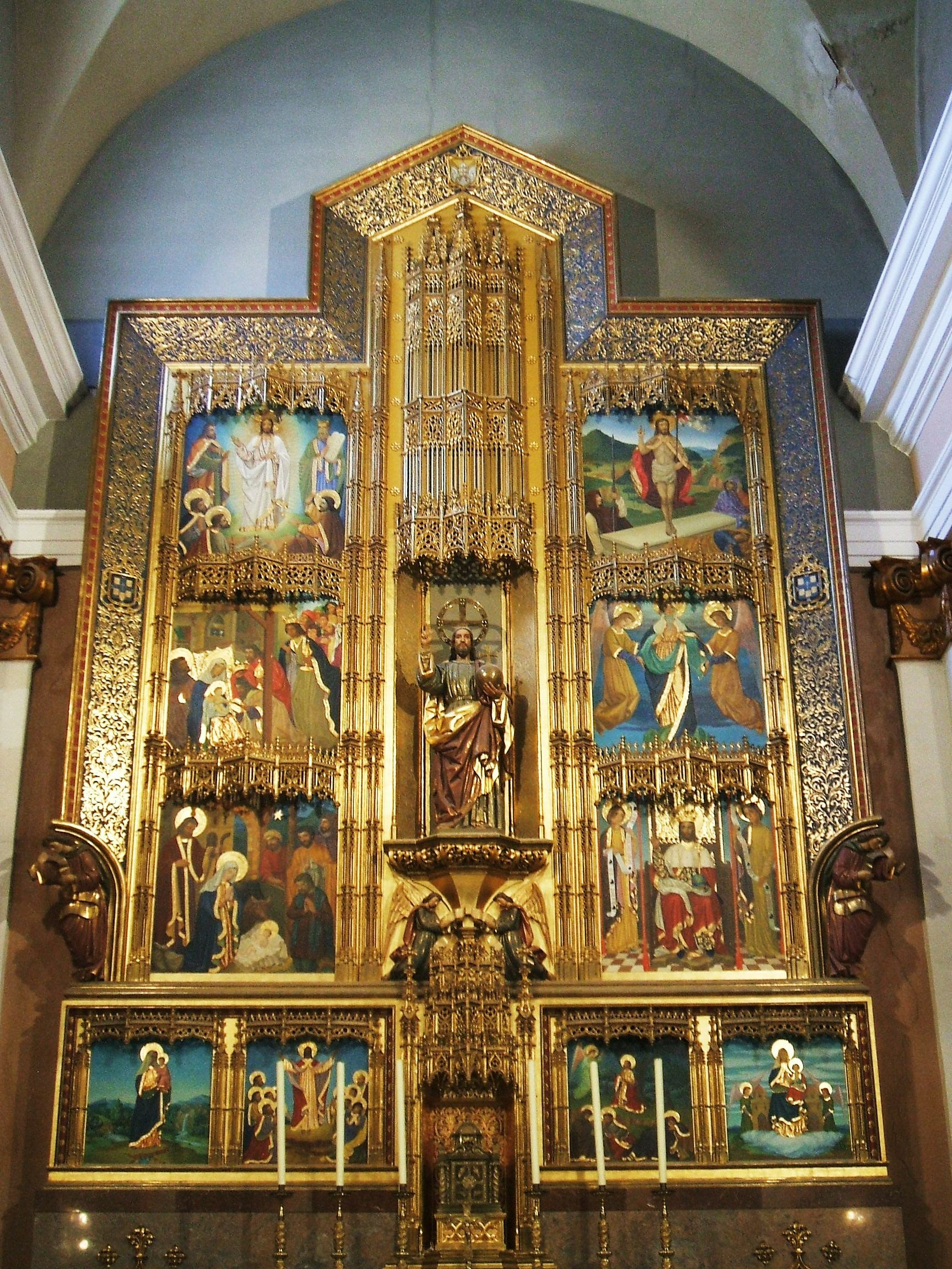 Retablo mayor neogótico de la Iglesia parroquial de San Salvador, Sariñena, Huesca, Aragón, España